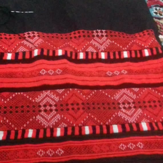 balochi doozi